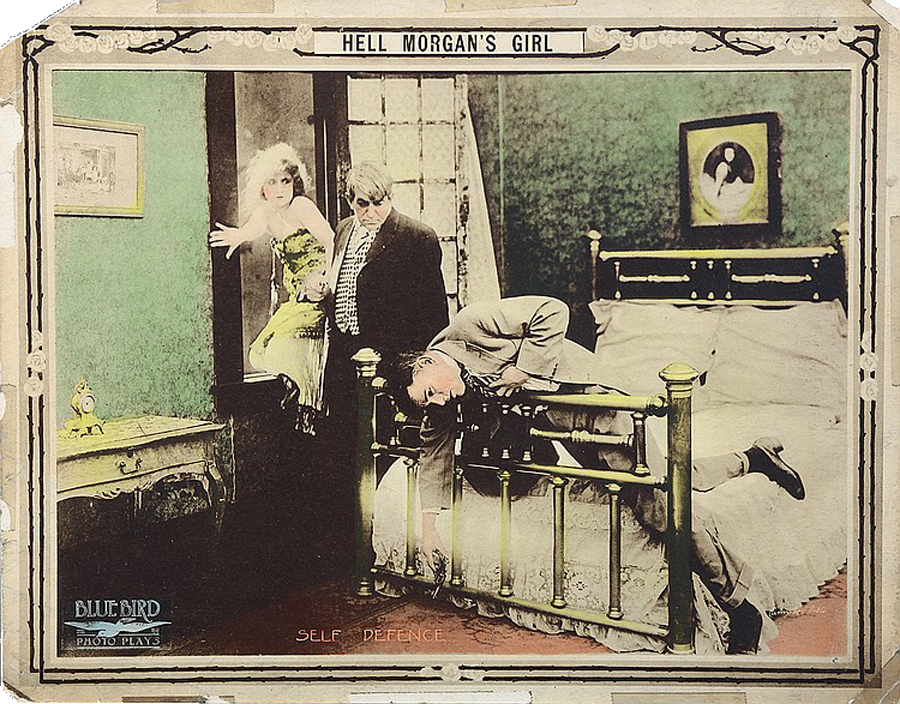 Lobby card for the American drama film Hell Morgan's Girl (1917).